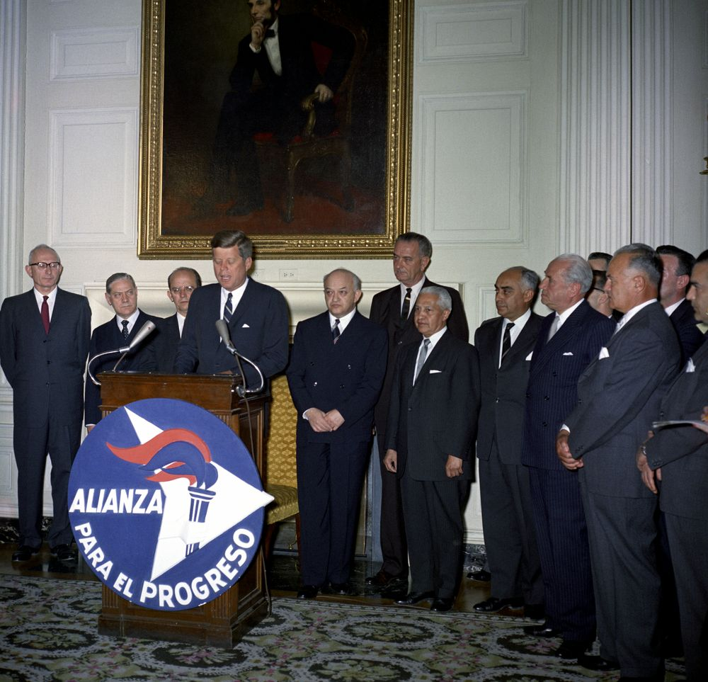 President John F. Kennedy speaks at a reception in honor of the Committee of Nine of the Alliance for Progress (La Alianza para el Progreso) and diplomatic corps of the Latin American Republics, on the first anniversary of the Alliance for Progress. L-R: Member of the Committee of Nine, Harvey S. Perloff (United States); two unidentified men; President Kennedy; member of the Committee of Nine, Paul N. Rosenstein-Rodan (United Kingdom); Vice President Lyndon B. Johnson; member of the Committee of Nine, Dr. Manuel Noriega Morales (Guatemala), in front; others unidentified. Other members of the Committee of Nine include Dr. Raúl Prebisch (third from the right) (Argentina), Hernando Agudelo Villa (Colombia), Ernesto Malaccorto (Argentina), Dr. Felipe Pazos (Cuba), Raúl Sáez (Chile), Ary Frederico Torres (Brazil), Gonzalo Robles (Mexico). State Dining Room, White House, Washington, D.C.